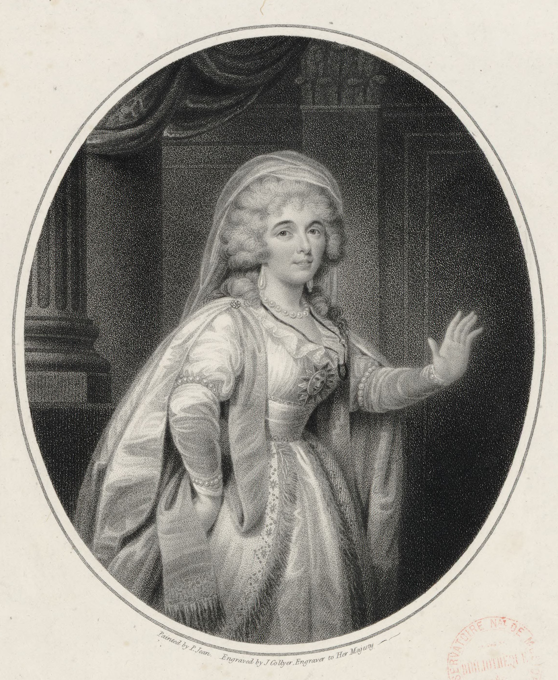 German opera singer and soprano Elisabeth Mara as Armida.